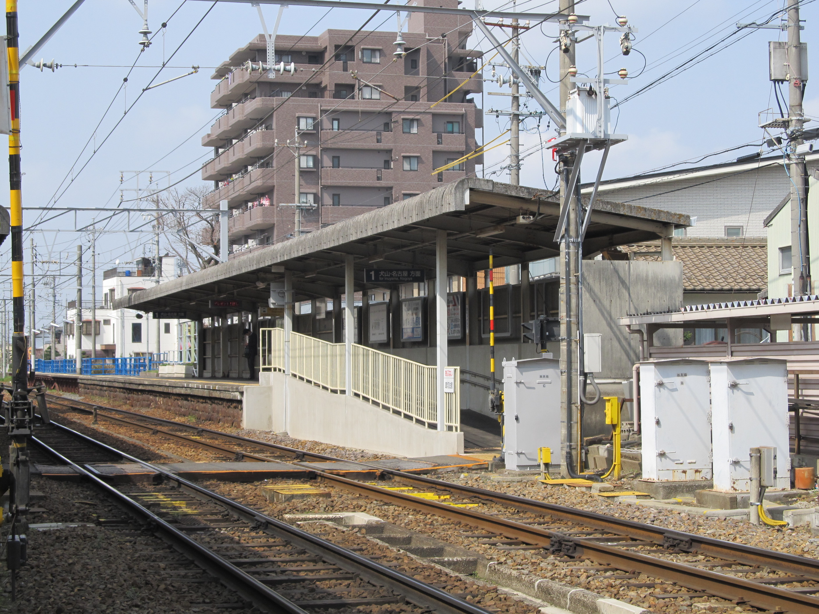 Nagoya Railroad Kakamigahara Line Rokken Station Platform (for Inuyama).